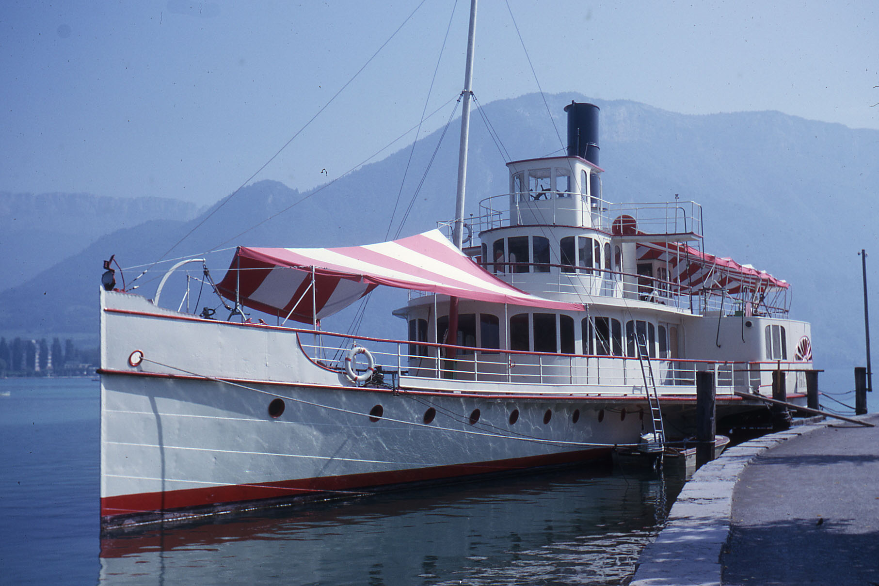 The inland cruise ship France moored in Annecy in 1964.